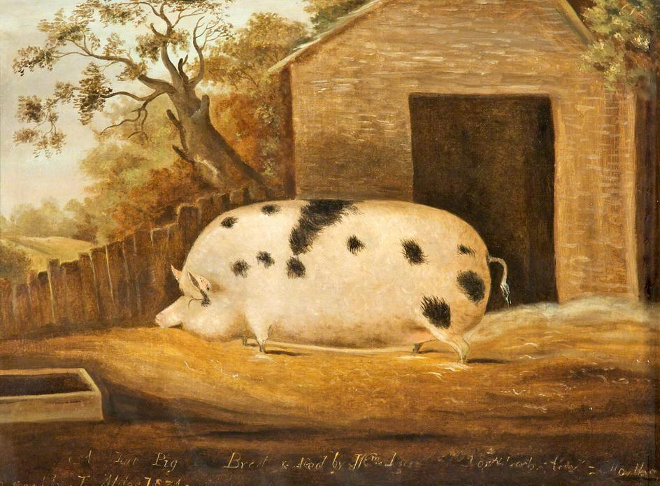 A painting of what was said to be the largest pig ever bred in Britain, this is an example of 'Naive art'.